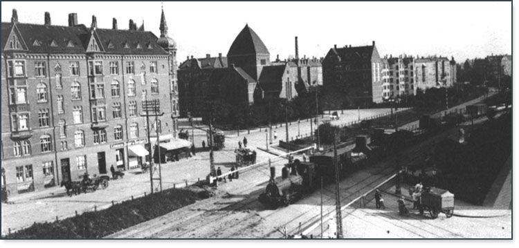 The former Railway crossing at Tantzausgade where the Nørrebro cycling route now runs, in Copenhagen, Denmark. The church is Brorson's Church while the Building to the left is located at the corner of Hans Egedes Vej